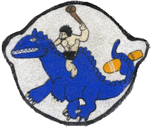 Emblem of the 326th Bombardment Squadron (World War II)